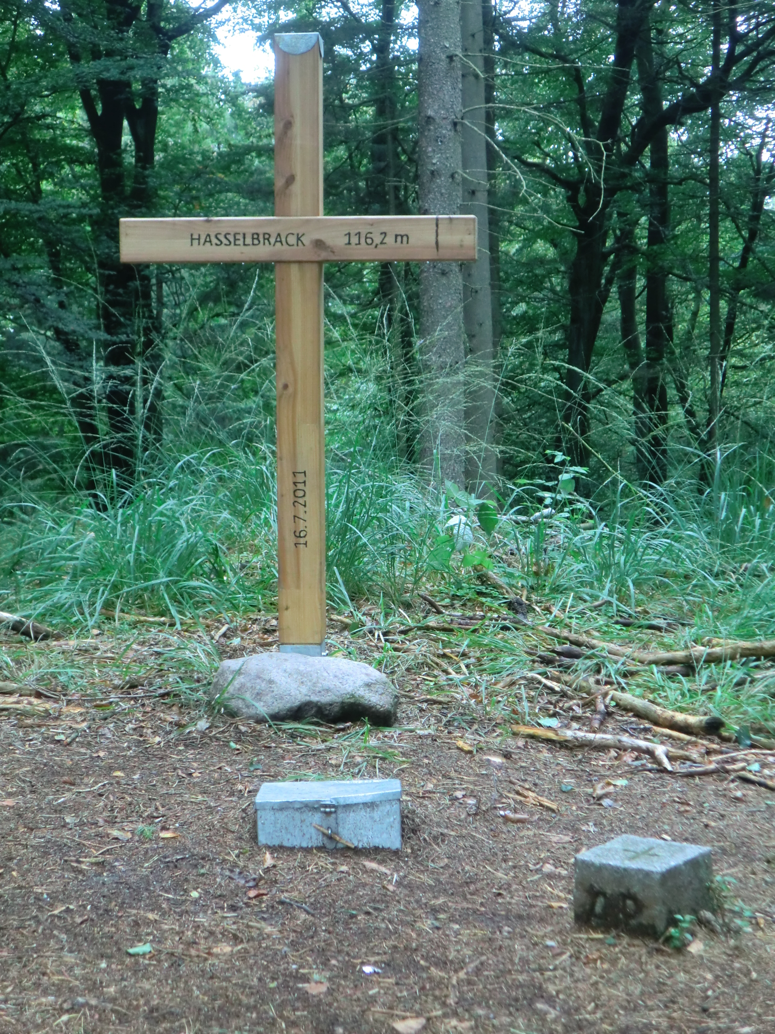 Summit cross (German: Gipfelkreuz) on the Hasselbrack, highest elevation (116,2m) in the German federal state of Hamburg